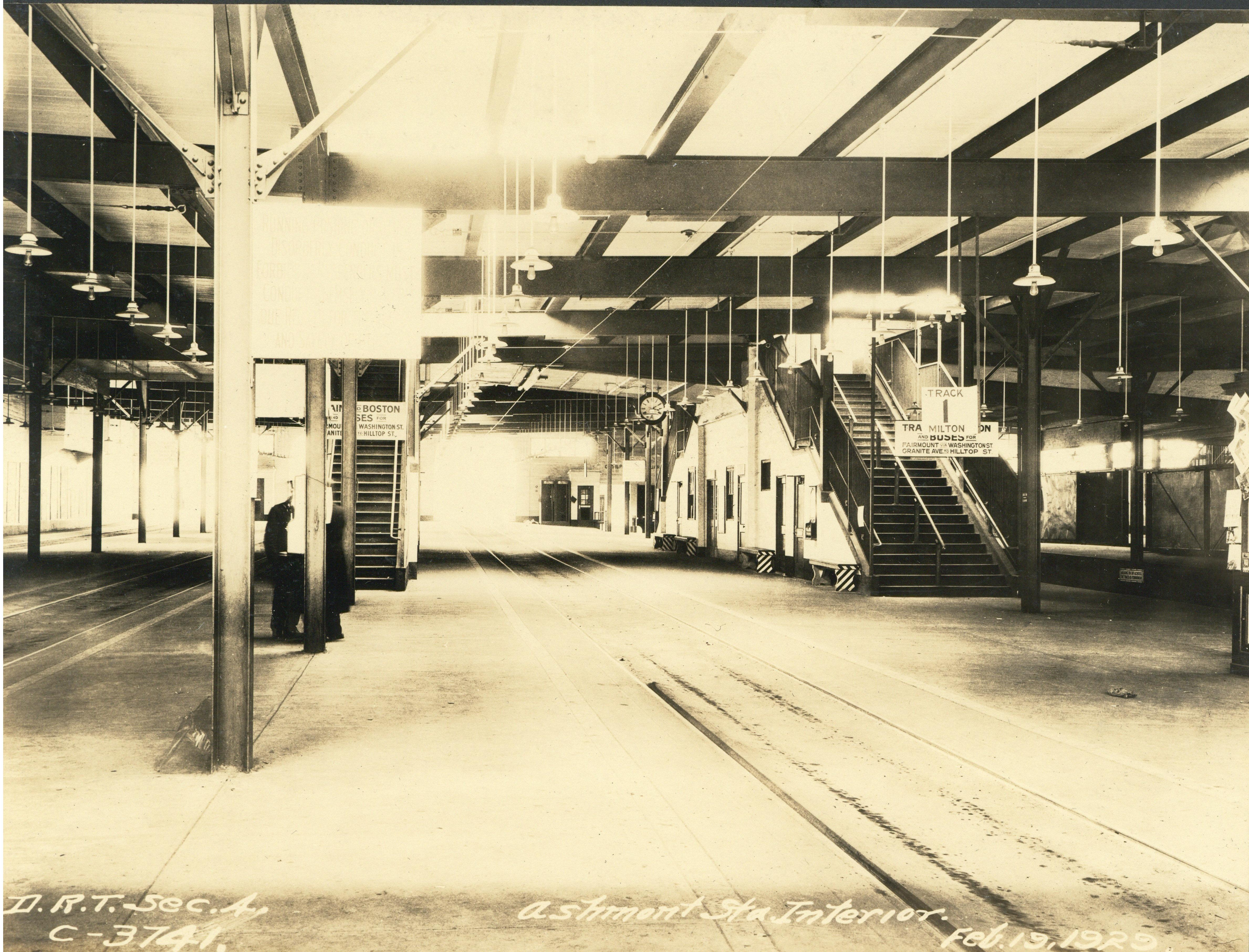 Interior of Ashmont station in February 1929, five months after it opened and six months before the first section of the Ashmont-Mattapan High Speed Line opened. The southbound loading track for Mattapan streetcars is at center, tracks for loading Dorchester Avenue streetcars at left, and the southbound Cambridge-Dorchester Line unloading track at right.